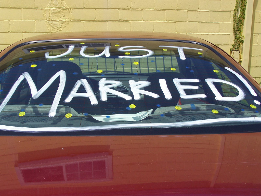 My car had this on the back glass the entire time we were in Amelia Island. We received many smiles and thumbs ups from drivers passing and passers by.